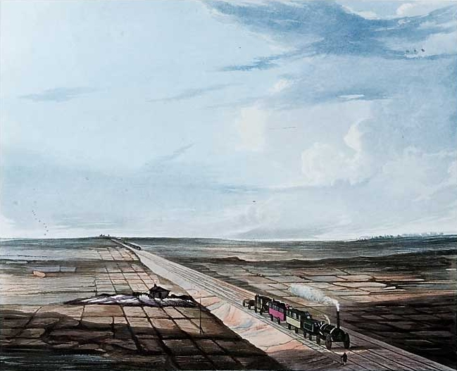 View of the Railway across Chat Moss. Drawn by Thomas Talbot Bury. Engraved by H. Pyall. Published by R. Ackermann and Company, February 1833